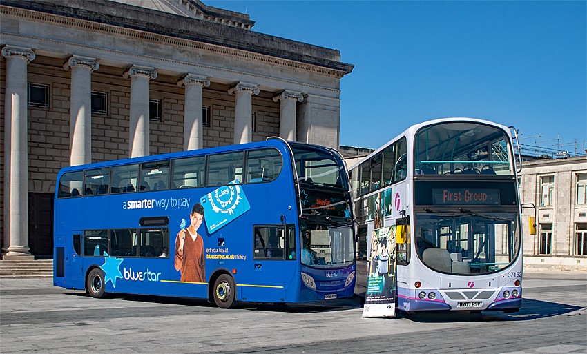 1851 Bluestar Volvo B7TL Alexander Enviro400 (SN56 AWX) and 37162 First Hampshire Volvo B7TL Wright Elipse Gemini (HY07 FSV) on display outside Southampton Guildhall as part of a student promotion at the beginning of the academic year.